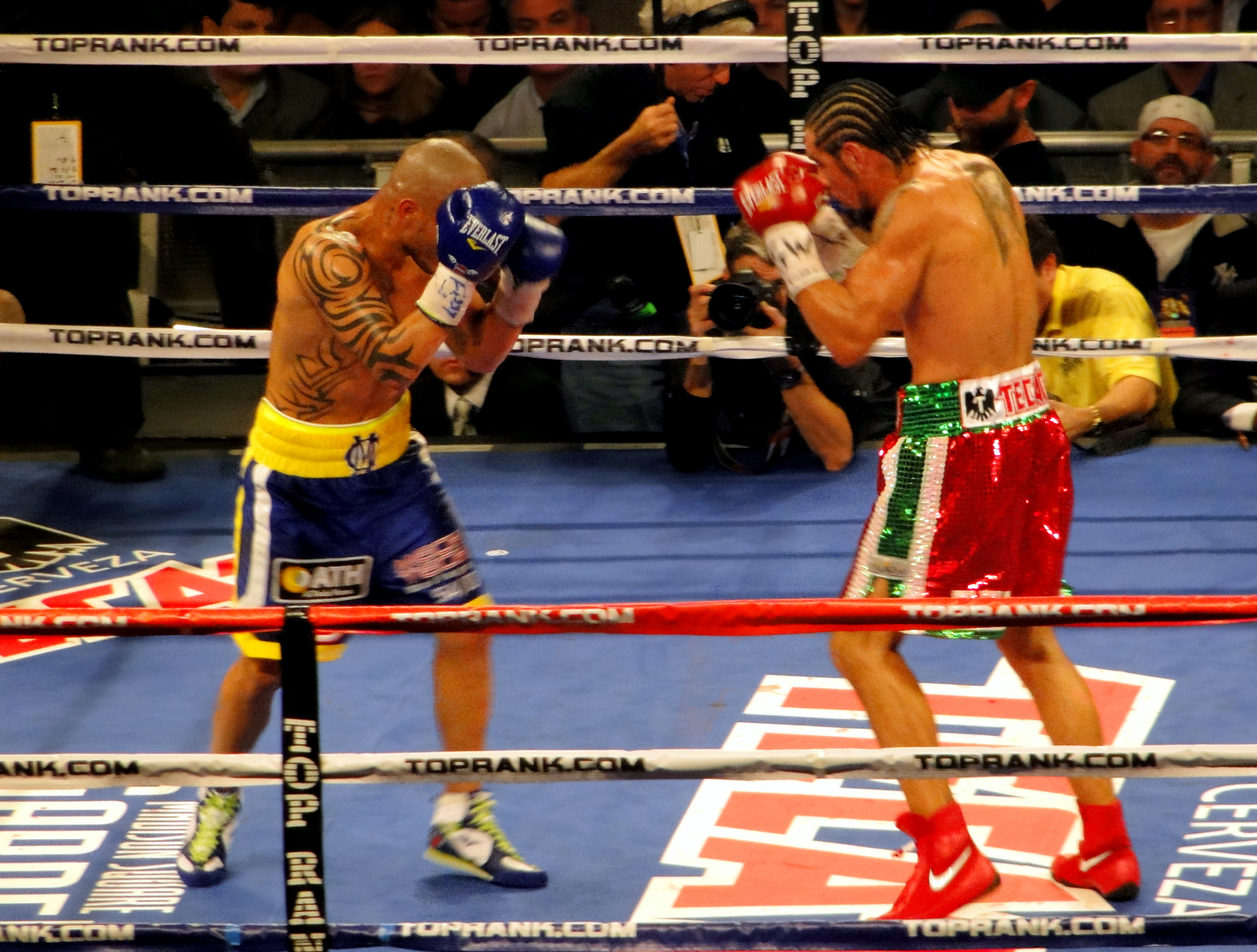 Miguel Cotto vs. Antonio Margarito II at the Madison Square Garden on December 3, 2011.